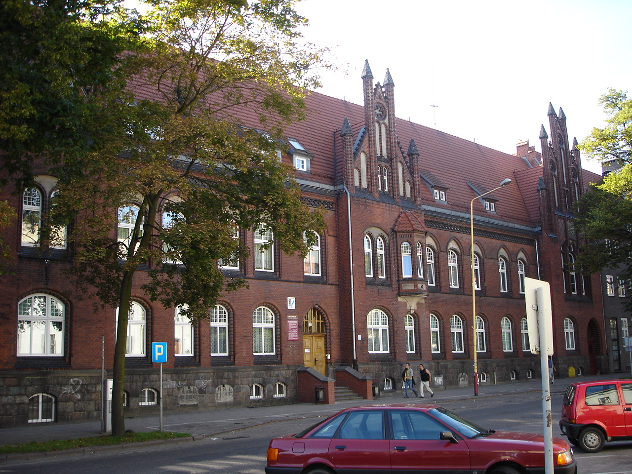 Foto by Politykstargard